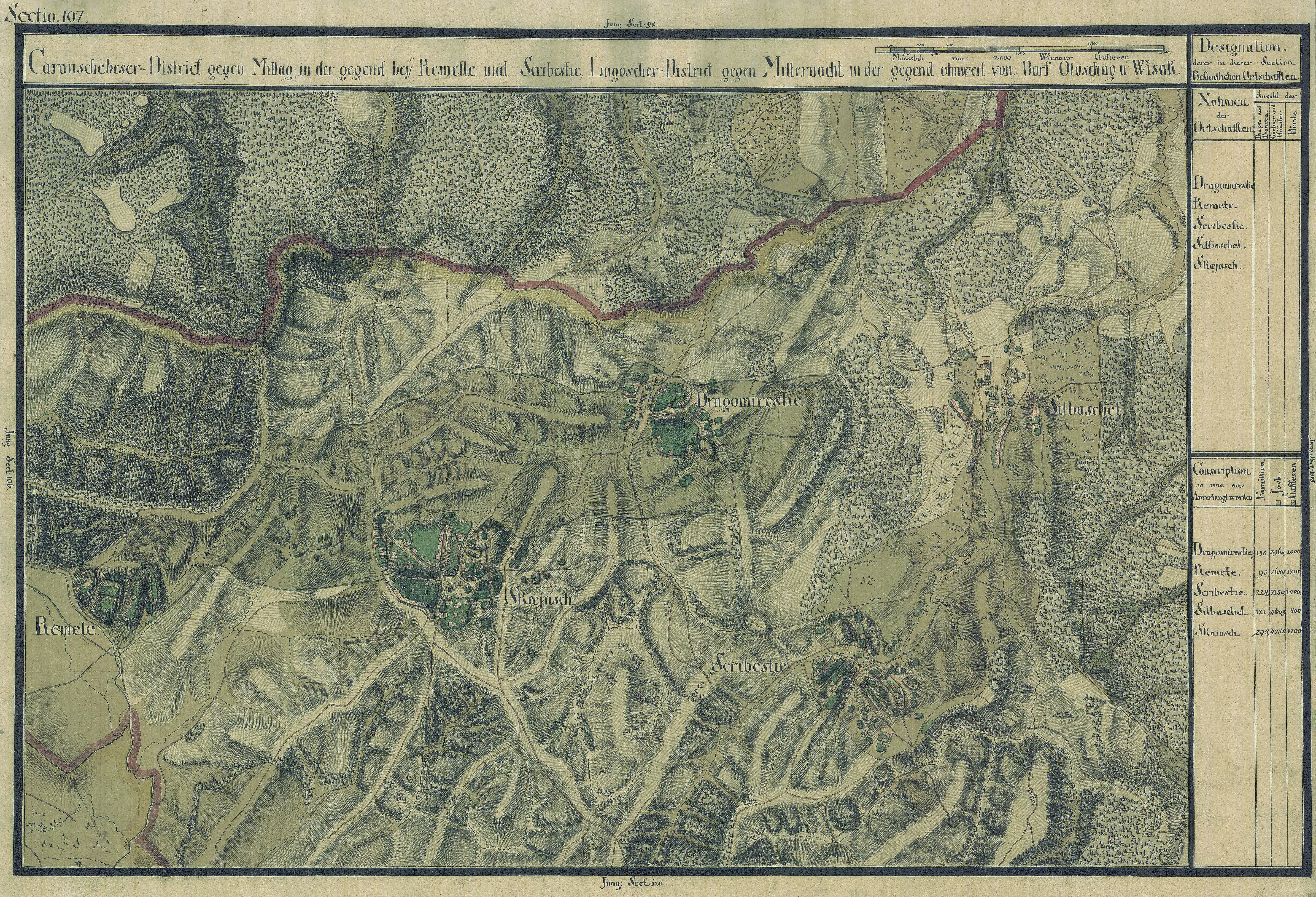 The Banat region in the cadastral maps: Josephinische Landesaufnahme, 1769-72. Josephinische Landaufnahme pg107